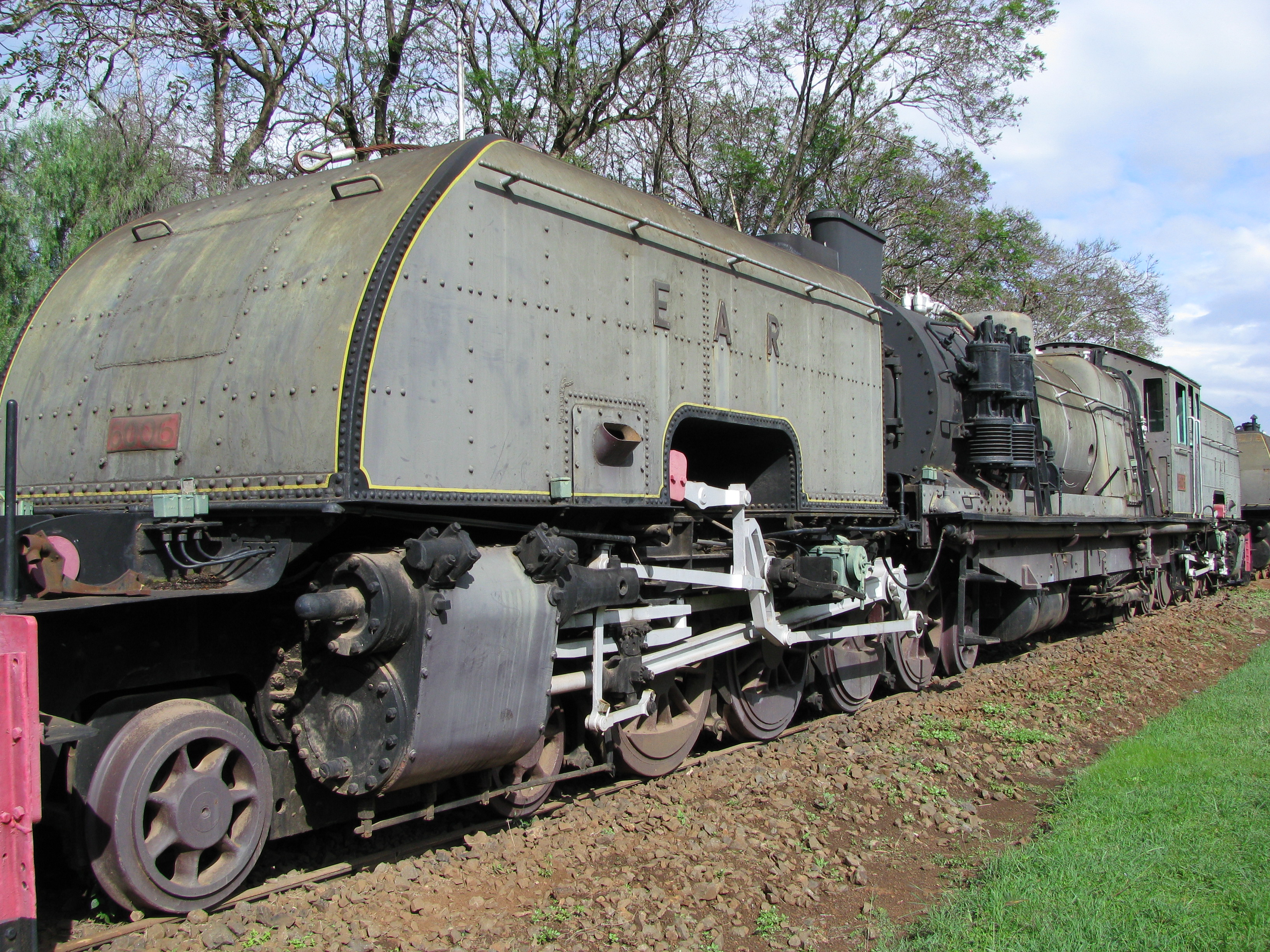 I was so much awe struck with the sheer size of the gargantuan Garratt that I simply had to take another shot. (Oct/ Nov 2010)